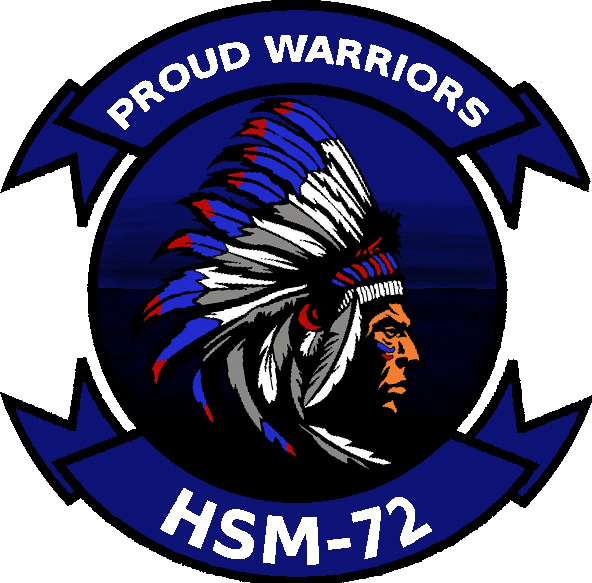 Squadron Patch for the HSM-72 "Proud Warriors".